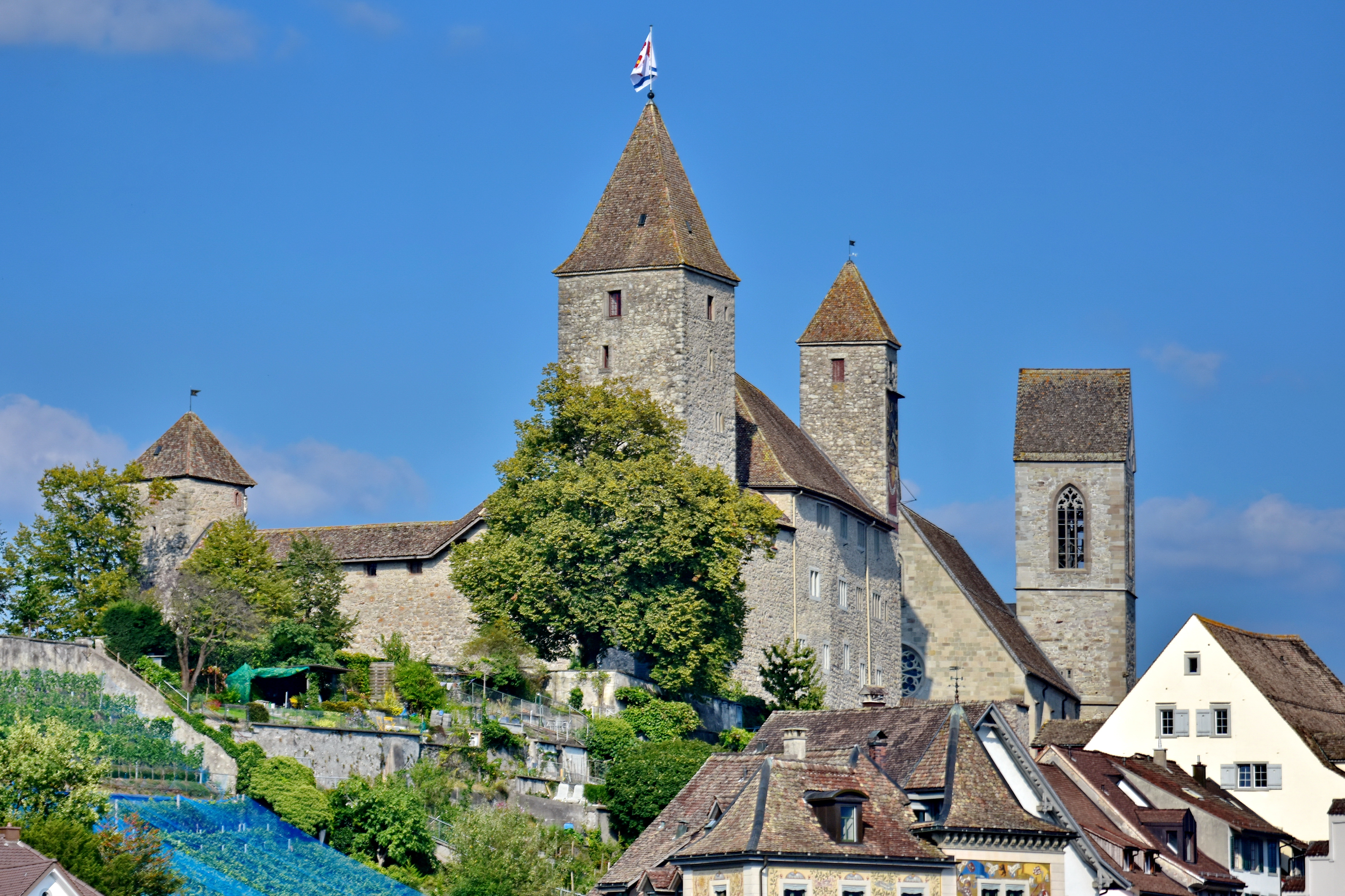 Rapperswil (Switzerland) : Lindenhof hill and the castle (Schloss) and Stadtpfarrkirche, and on lakeshore the Curti building, as seen from Zürichsee-Schiffahrtsgesellschaft (ZSG) ship MS Helvetia on Zürichsee in Switzerland